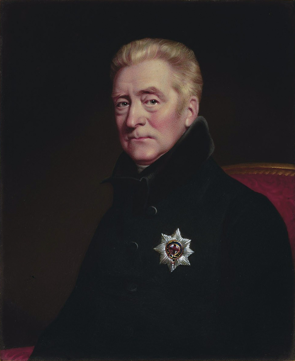 George John, 2nd Earl Spencer, K.G. (1758-1834), seated on a red-upholstered chair, in dark green coat with black collar, wearing the breast-star of the Order of the Garter